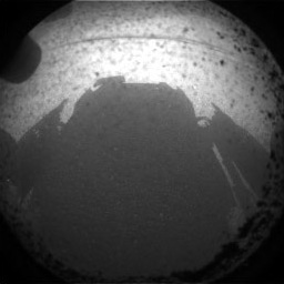 This is one of the first images taken by NASA's Curiosity rover, which landed on Mars the evening of Aug. 5 PDT (morning of Aug. 6 EDT). It was taken through a "fisheye" wide-angle lens on one of the rover's front Hazard-Avoidance cameras at one-quarter of full resolution. The camera is the left eye of a stereo pair positioned at the middle of the rover's front side. The clear dust cover on the camera is still on in this view, and dust can be seen around its edge, along with three cover fasteners. The rover's shadow is visible in the foreground. As planned, the rover's early engineering images are lower resolution. Larger color images are expected later in the week when the rover's mast, carrying high-resolution cameras, is deployed.